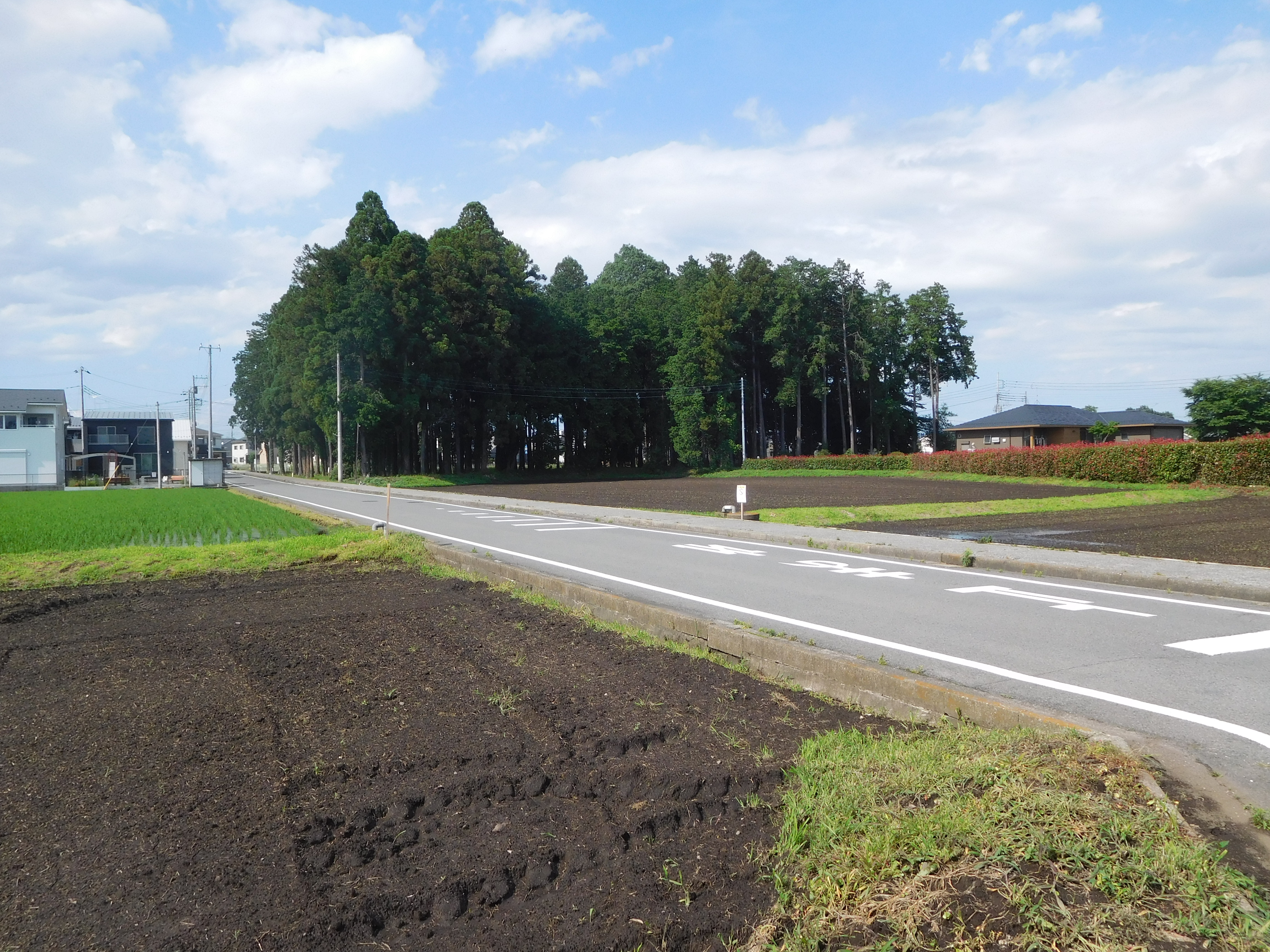 This is a traditional landscape in Komanyu-machi, Utsunomiya, Tochigi, Japan.